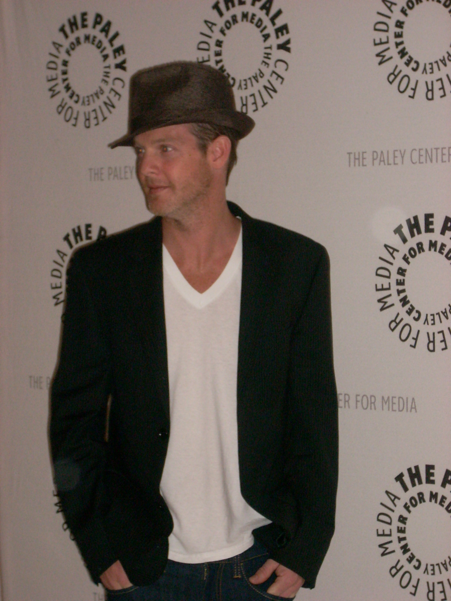 "Monk: 100 Episodes and Counting..." - Paley Center for Media, Dec. 2, 2008